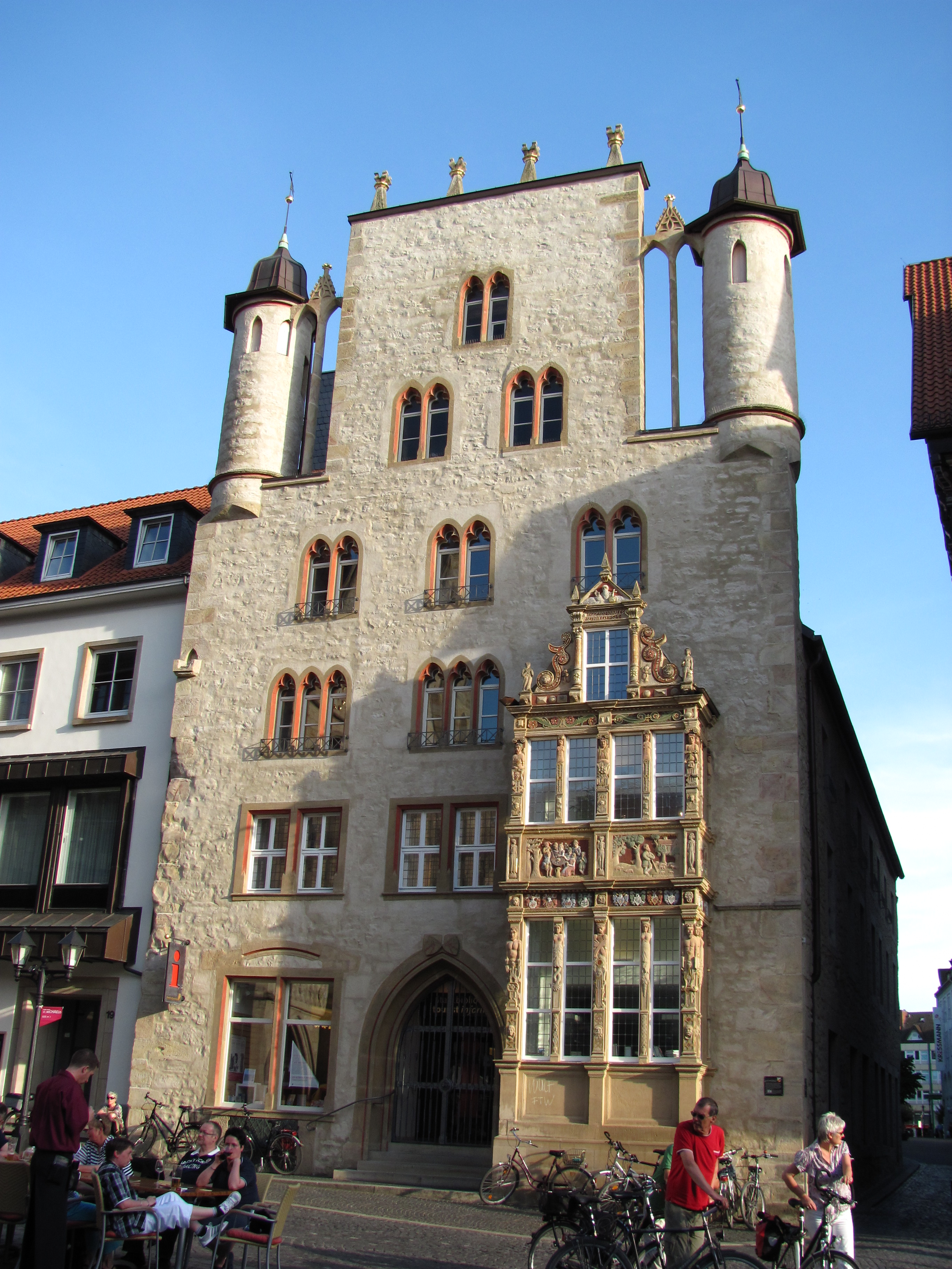 Temple House, Hildesheim, Germany